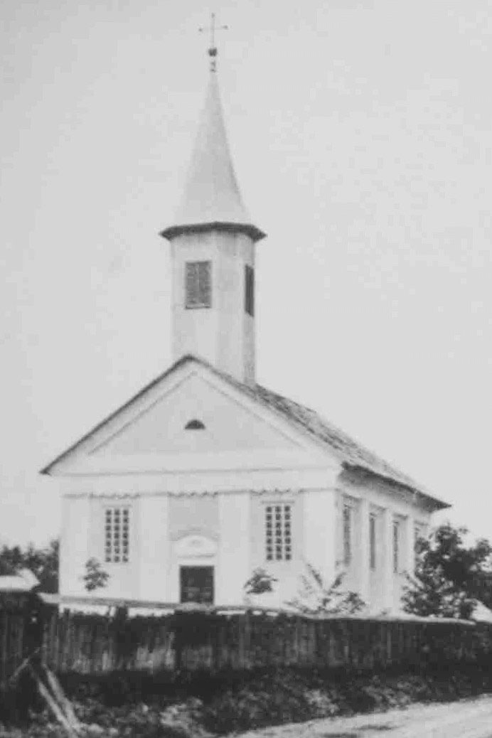 Колишня німецька кірха. Фото ≈ 1900 року.